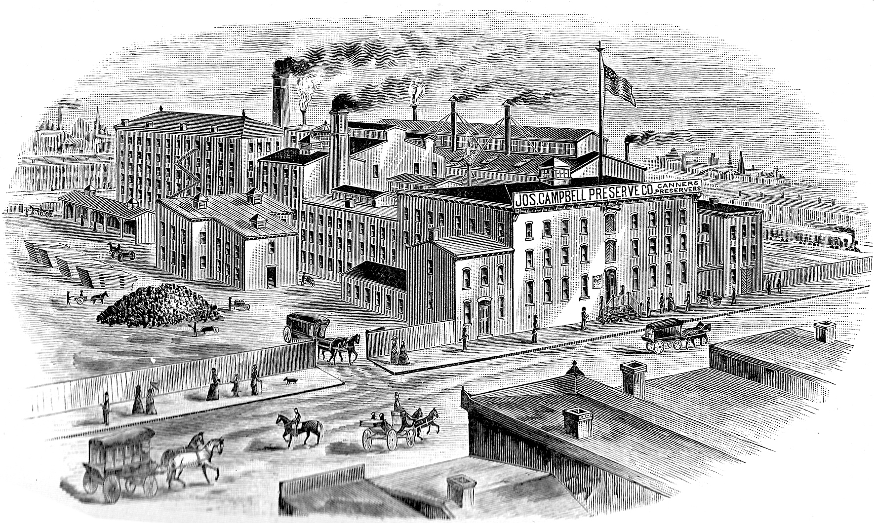 The Joseph Campbell Preserve Co., Camden, NJ 1894 (engraving)